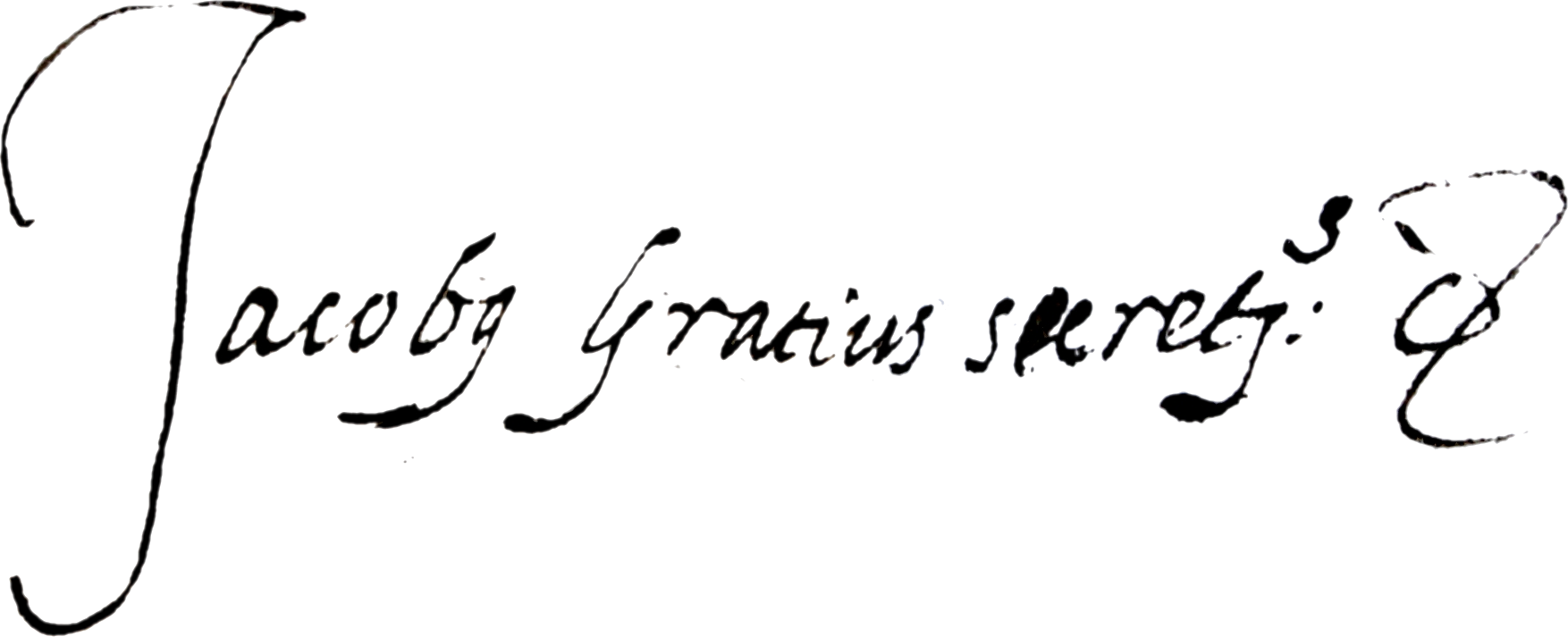 Signature of Jacobo de Grattis, Knight of Grace